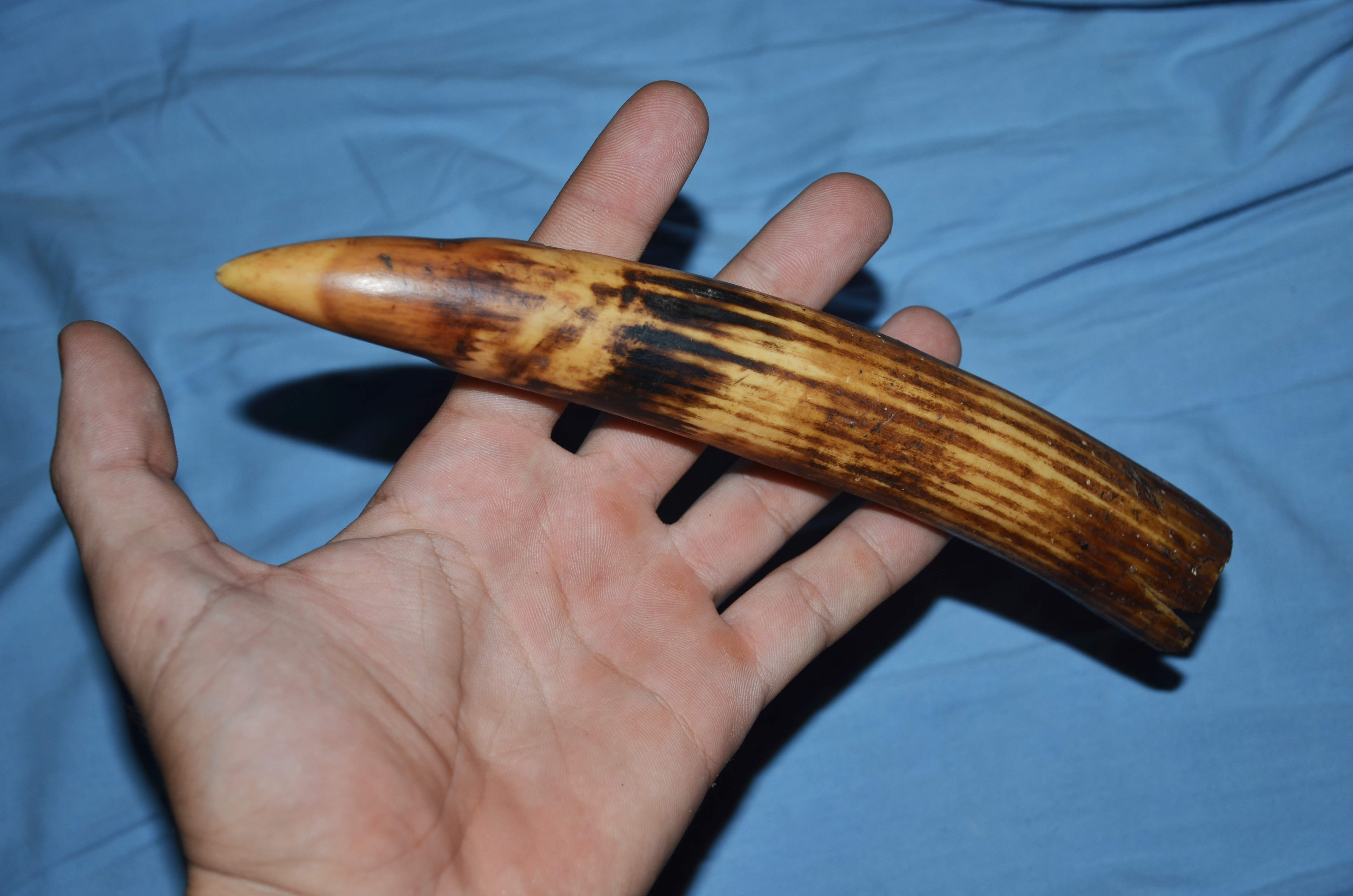 Small elephant tusk for sale